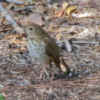 Hermit thrush, Catharus guttatus captured in Southeastern North Carolina during February 2006, by Sharon Mooney.